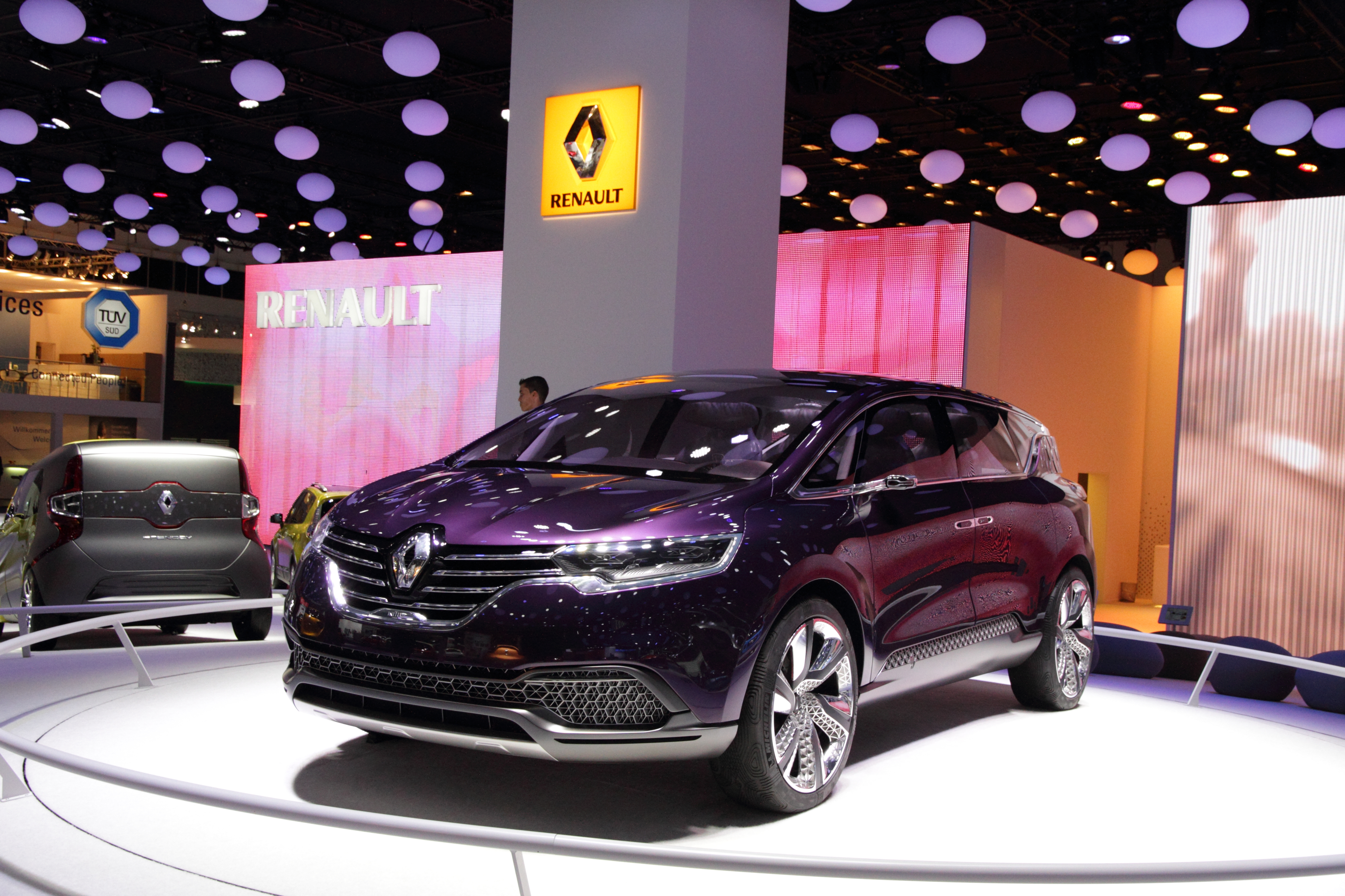 IAA 2013 Frankfurt Germany Renault Concept Cars